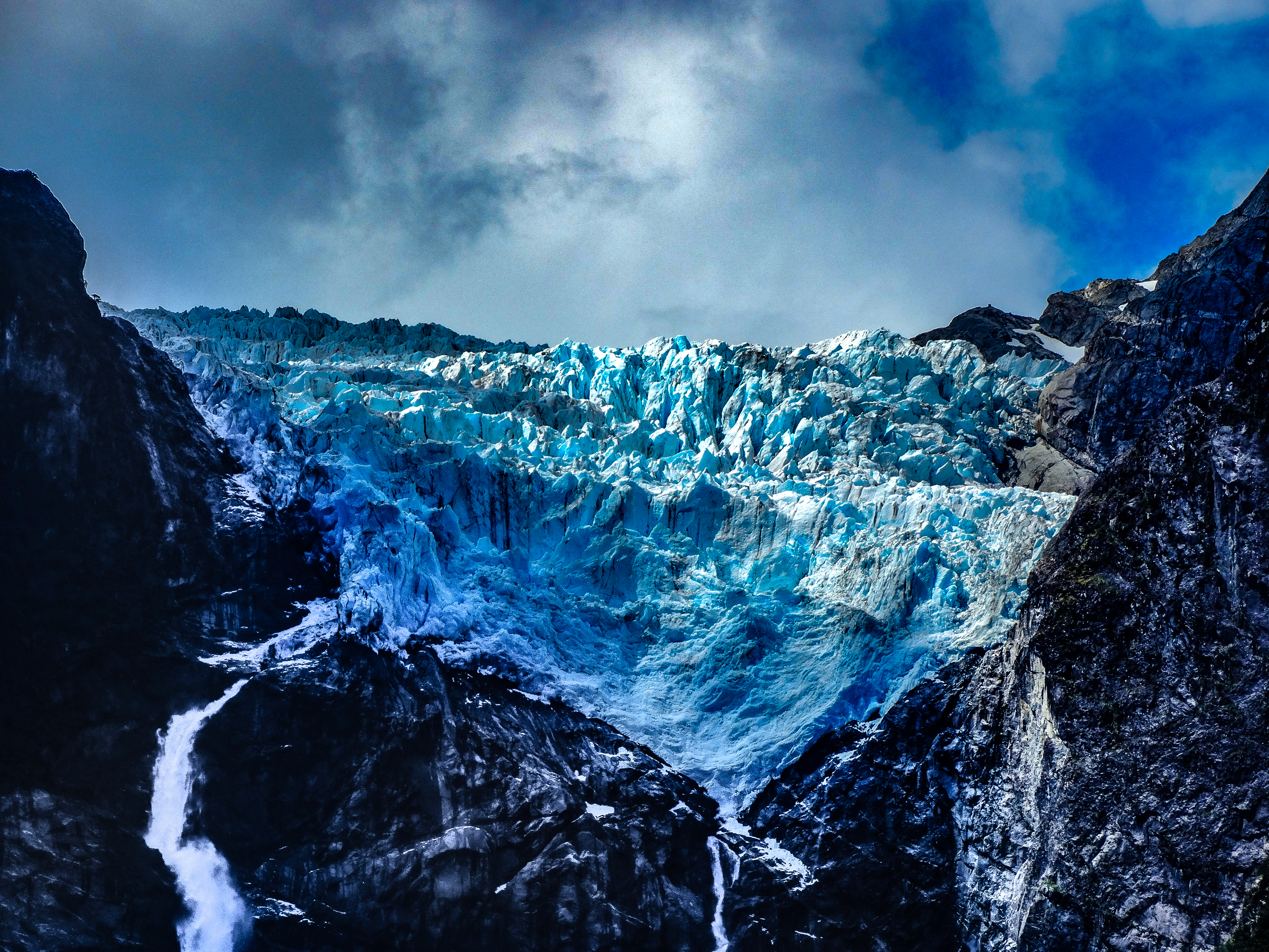 Queulat Hanging Glacier